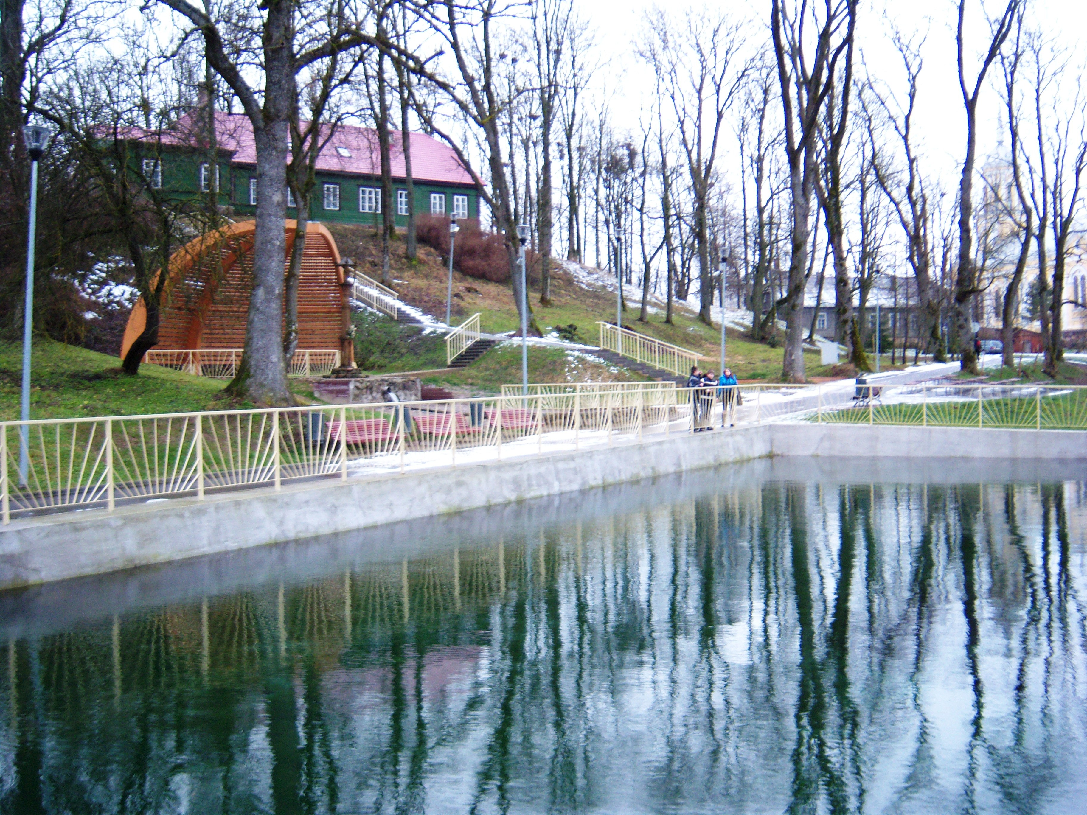 St. John's spring, Kavarskas, Lithuania